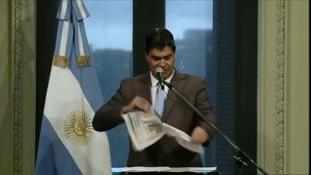 Jorge Capitanich destroying an article from Clarin newspaper after accusing the paper of publishing false information.